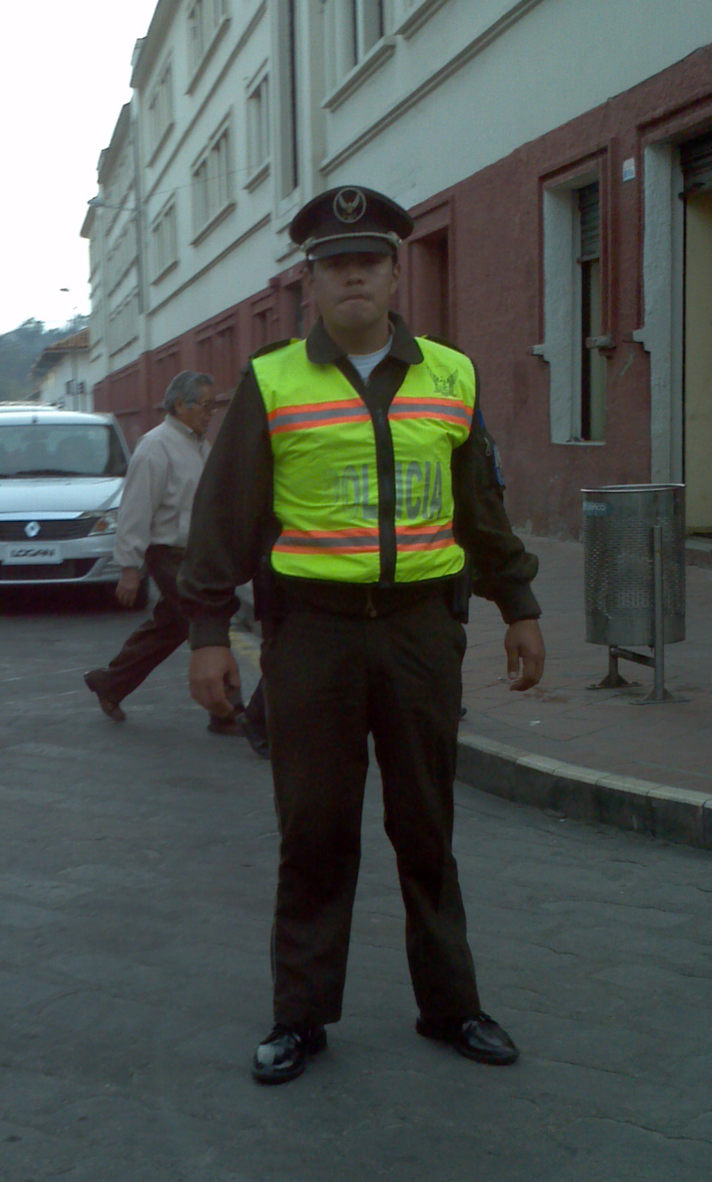 An officer of the Policía Nacional del Ecuador in Cuenca, Ecuador with the normal uniform.